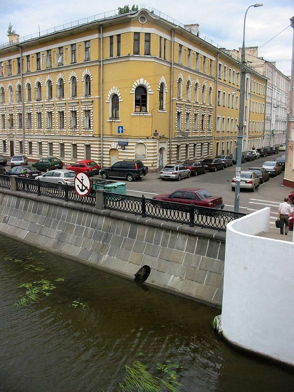 Sadovnicheskaya Embankment, Moscow. The corner building has been vacated and condemned for "redevelopment". In June 2009 it collapsed, killing illegal workers; the city demolished the whole block and scores of other old buildings in a swift "anti-terrorist" campaign.